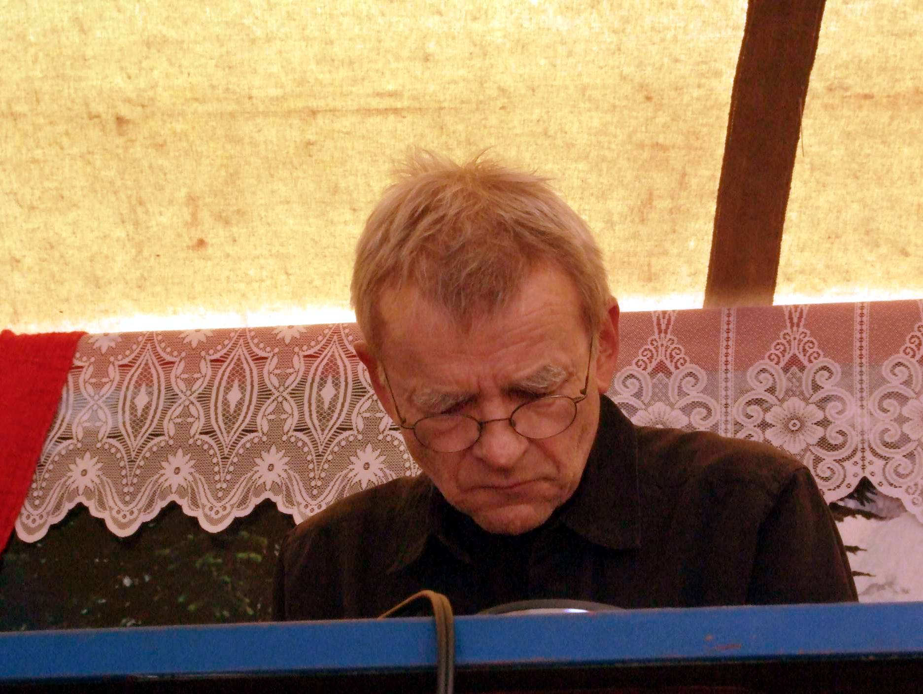 Dieter Moebius from German krautrock band Cluster performing at Fusion Festival 2010